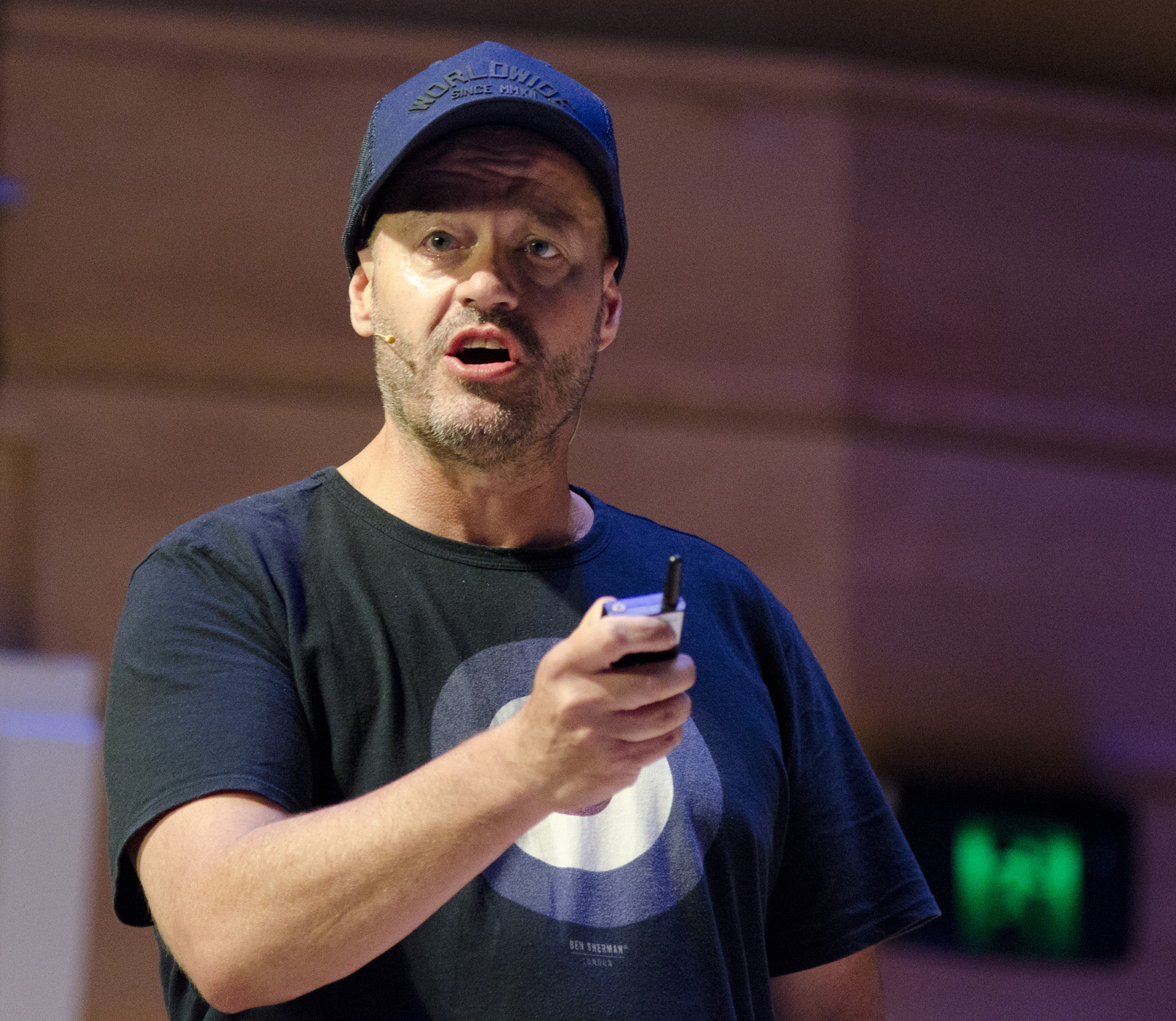 Adam Spencer, speaking at the Australian Skeptics National Convention 2017. Topic: The Number Games. 9:05am Sunday 19 November 2017.